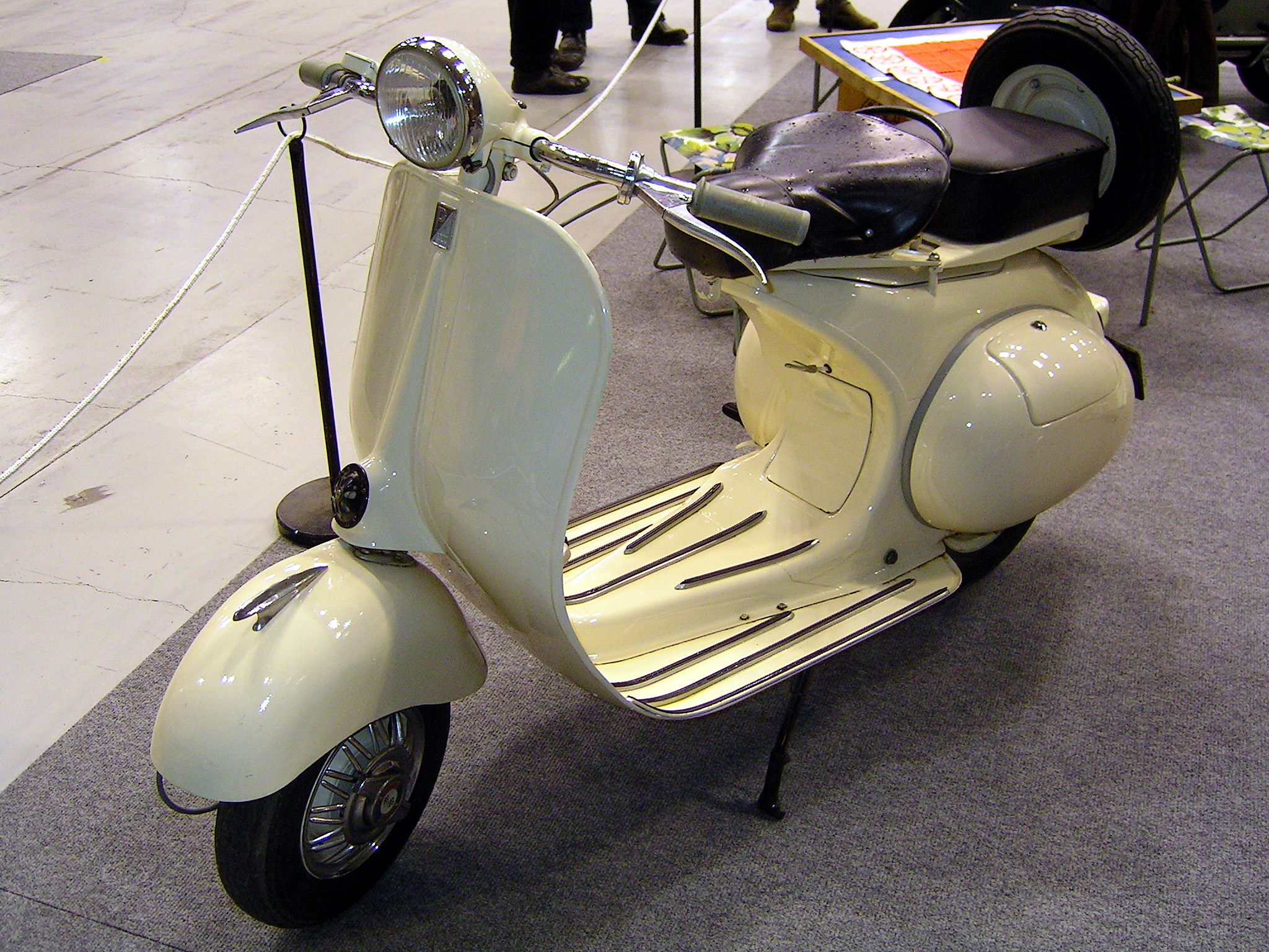 Vespa 125 made under licence from Piaggio in France by ACMA in Fourchambault (1950's).